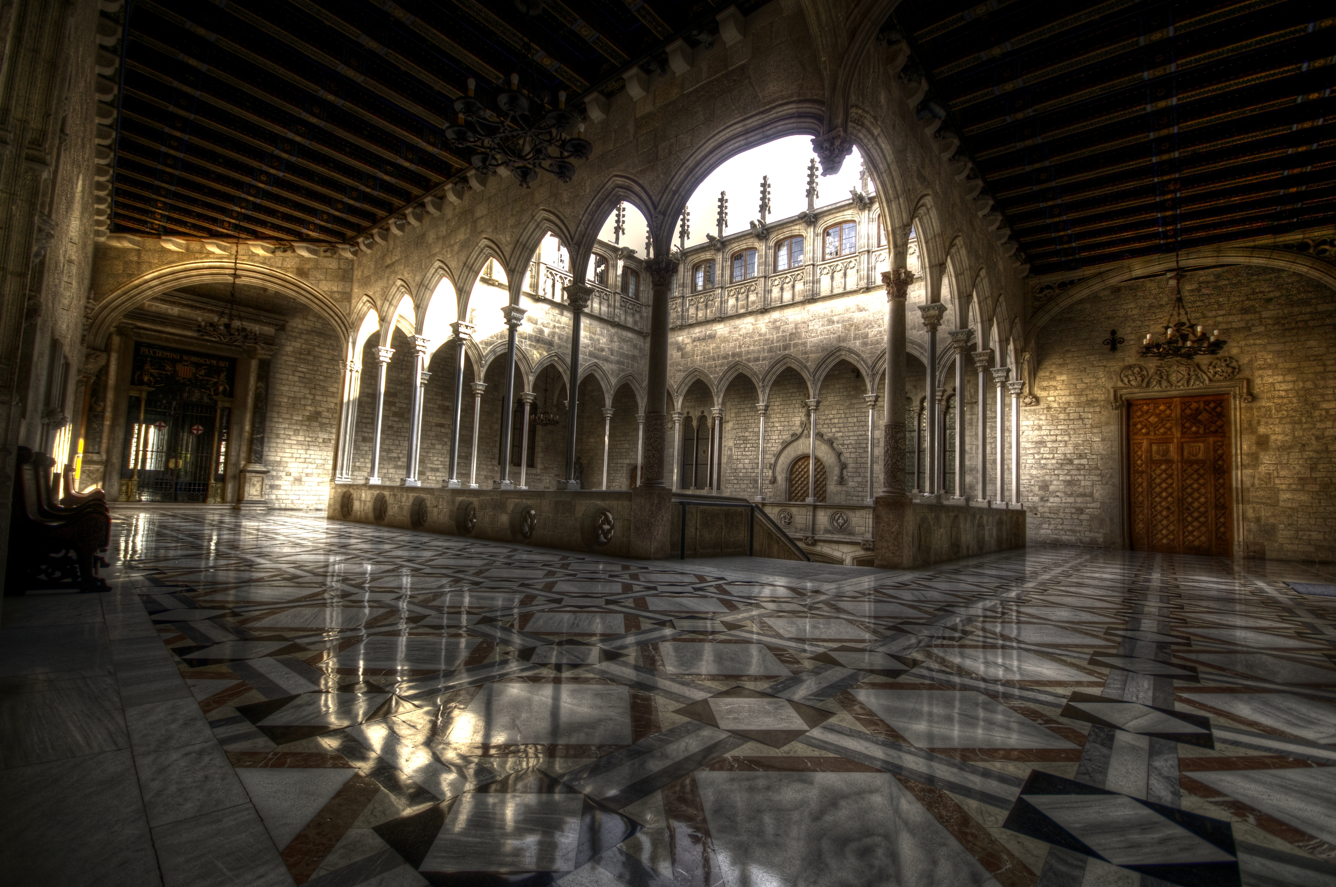 The Palau de la Generalitat houses the offices of the Presidency of the Generalitat de Catalunya